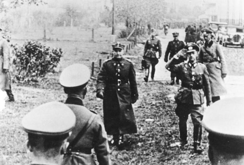 Warsaw during World War II